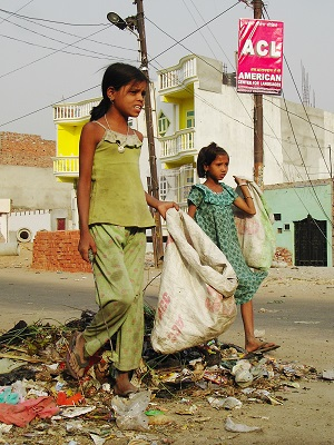 Two minor girls seen picking trash in Lucknow India